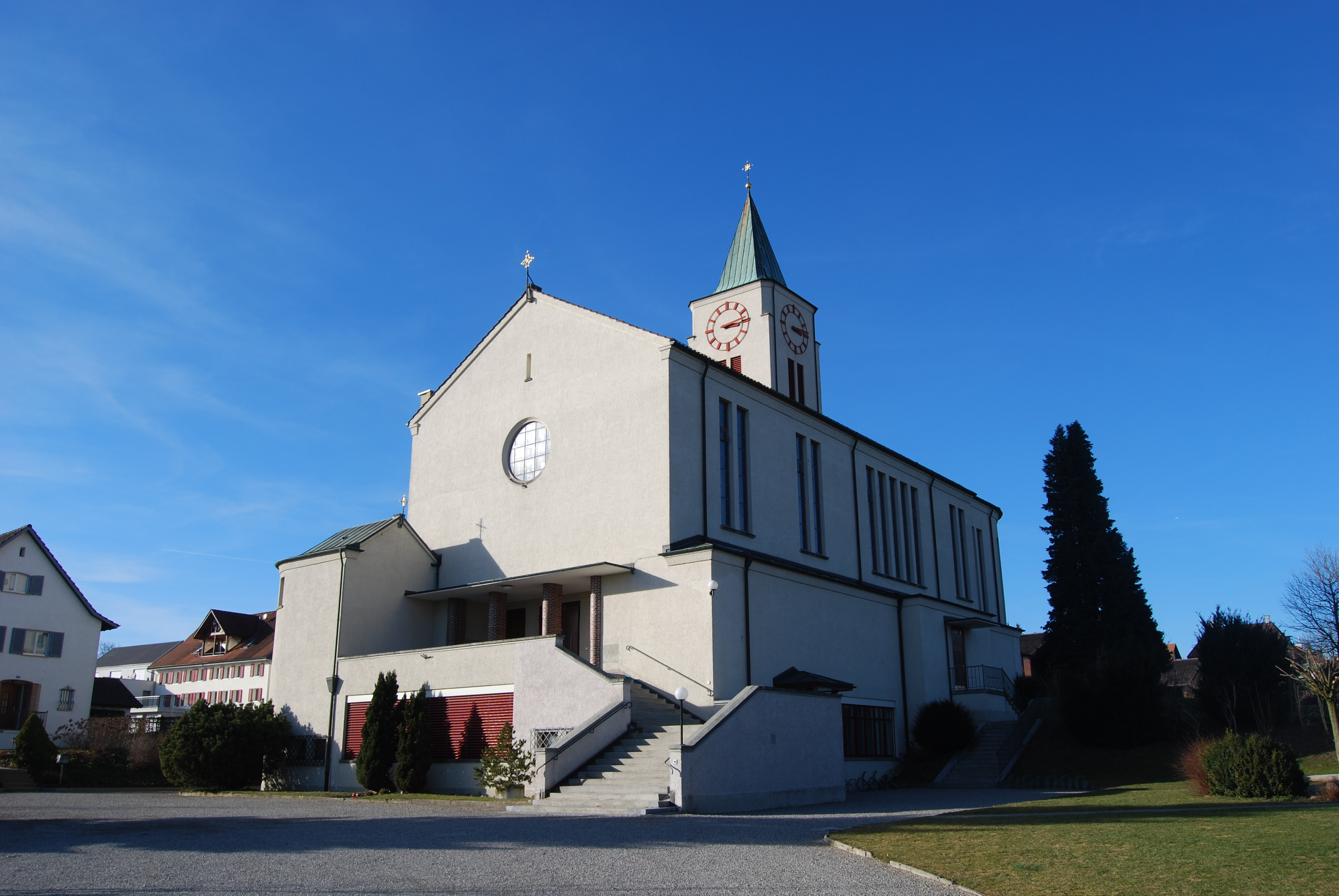 Catholic church of Berg, canton of Thurgovia, Switzerland